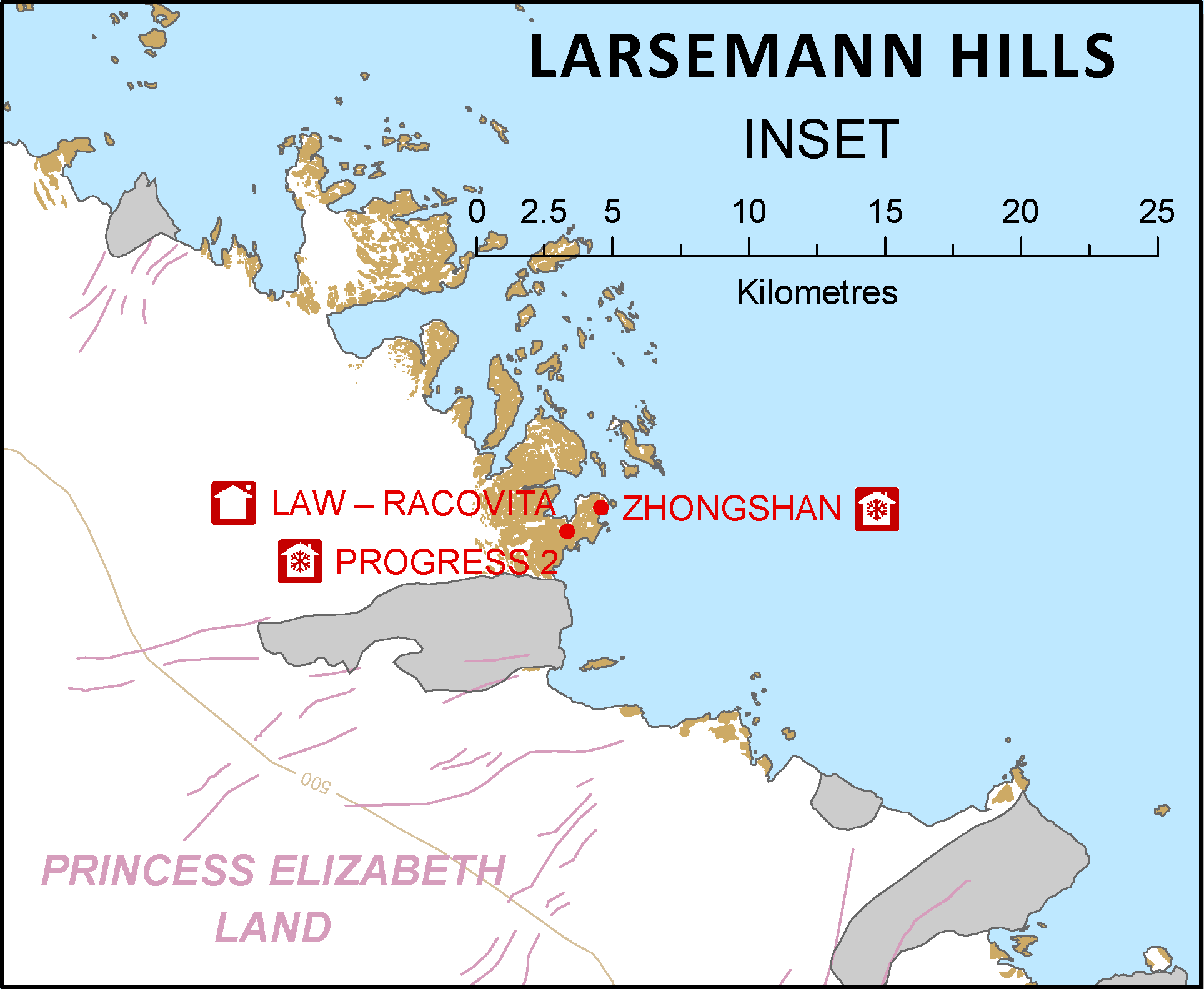 Map of Larsemann Hills in East Antarctica